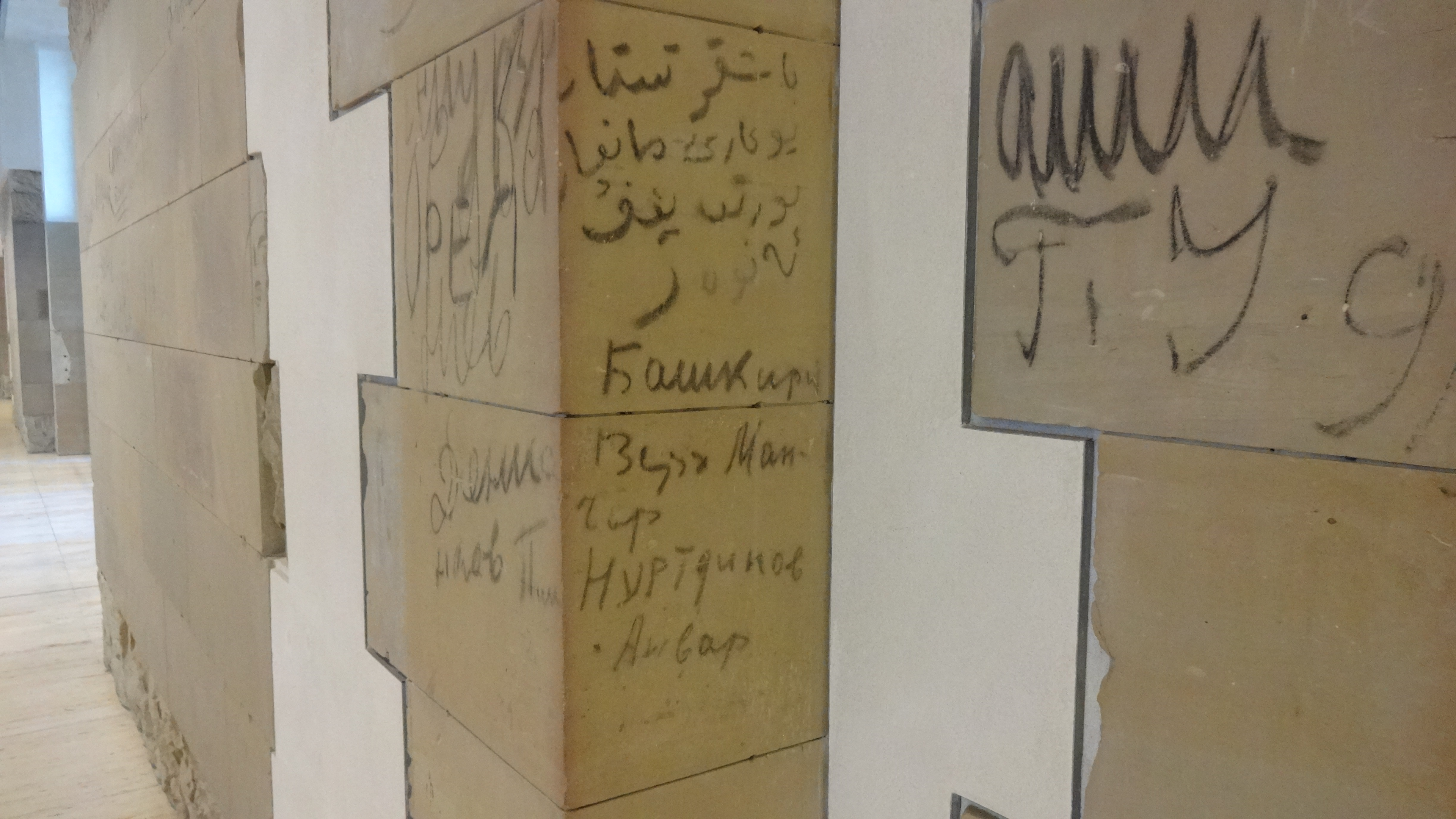 Inscriptions the Soviet soldiers in the Reichstag - Oryol and Bashkiria.